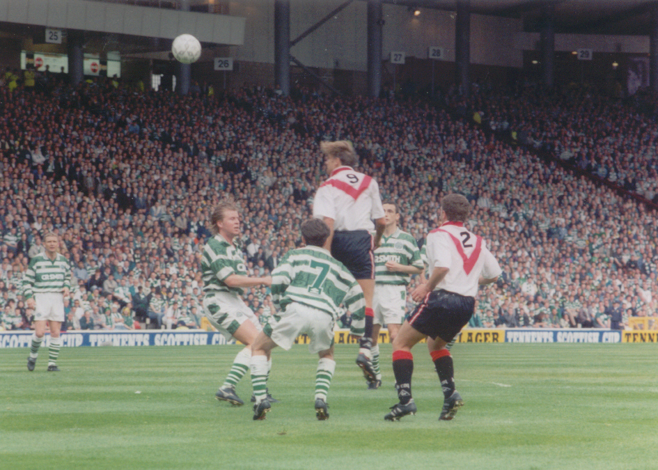 Airdrie-Celtic Cup Final picture